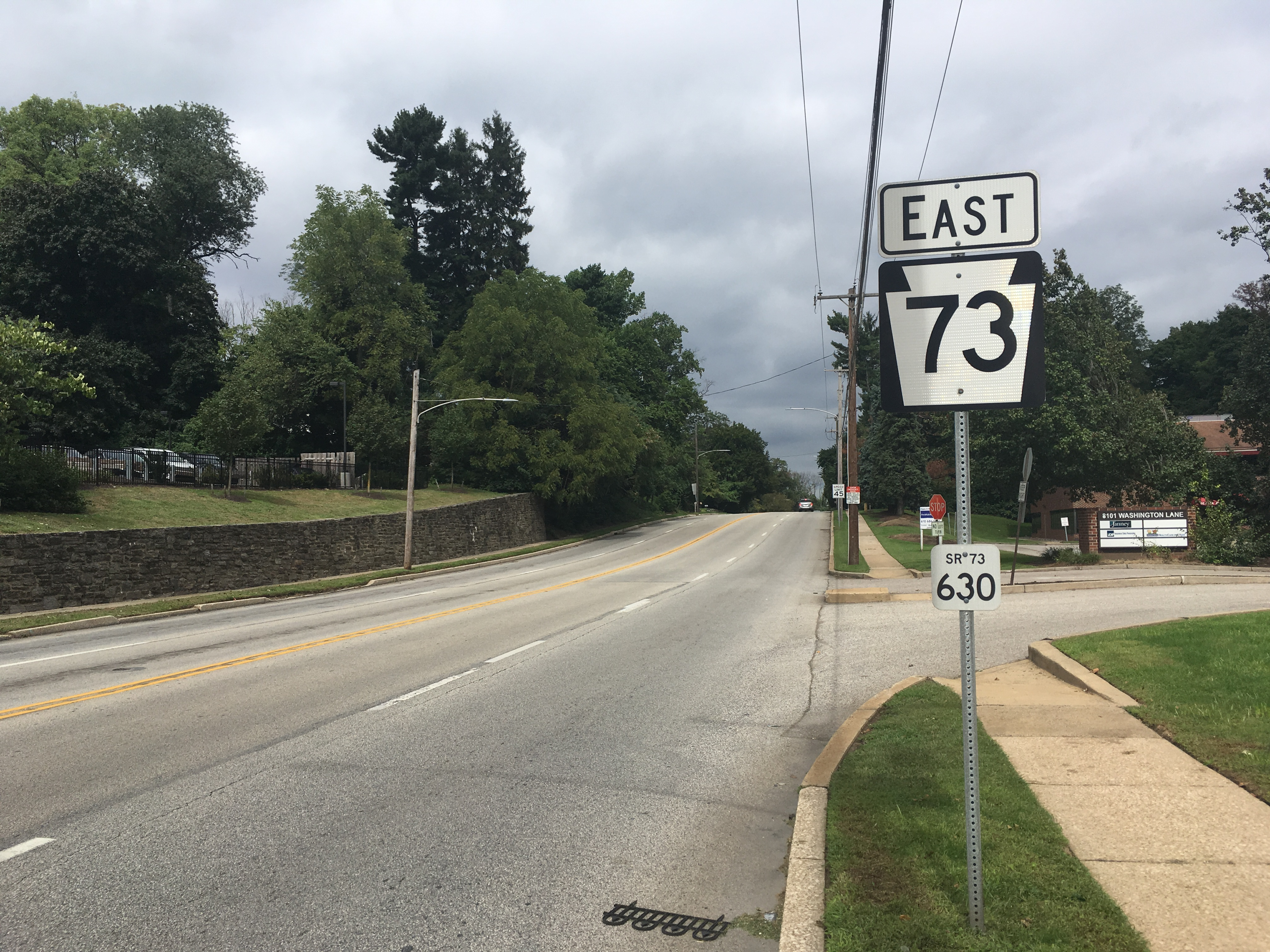 Eastbound Pennsylvania Route 73 (Washington Lane) past the intersection with Church Road in Cheltenham Township, Pennsylvania